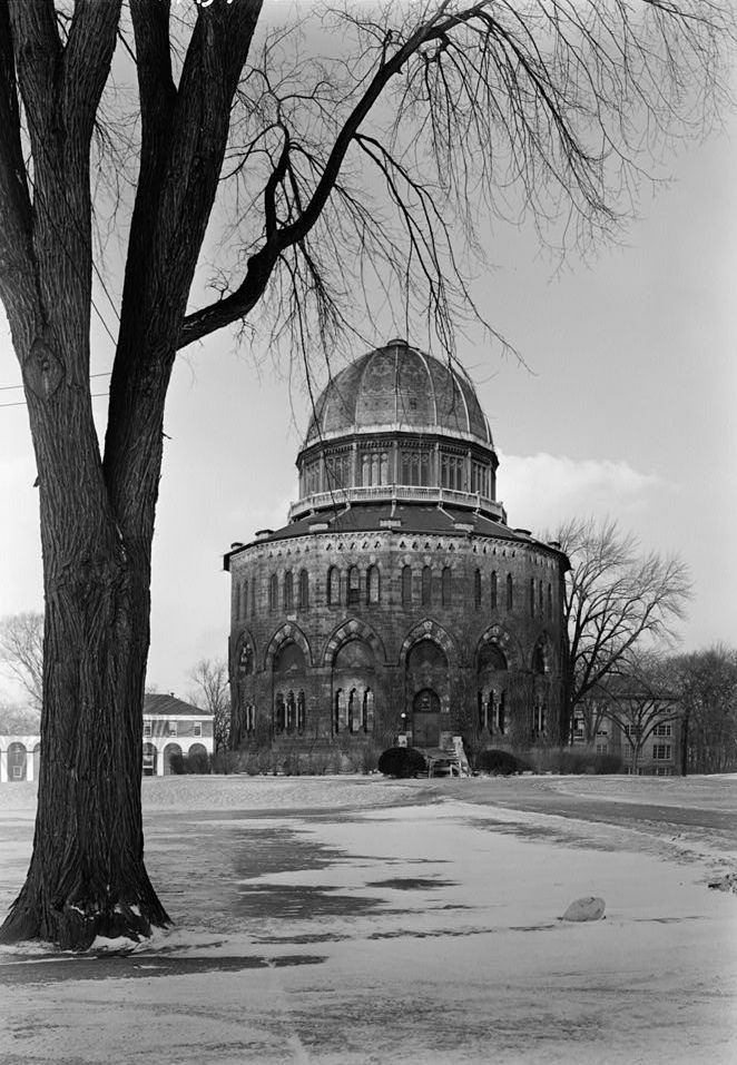 Nott Memorial Library, Union College, Schenectady, Schenectady County, New York.